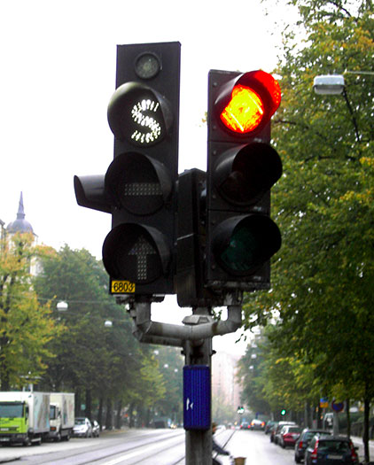 Swedish traffic light, specifically for public transport.